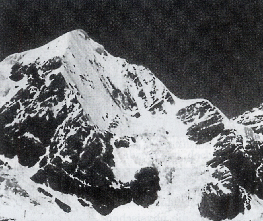 Königspitze seen from Schaubachhütte, ca. 1917